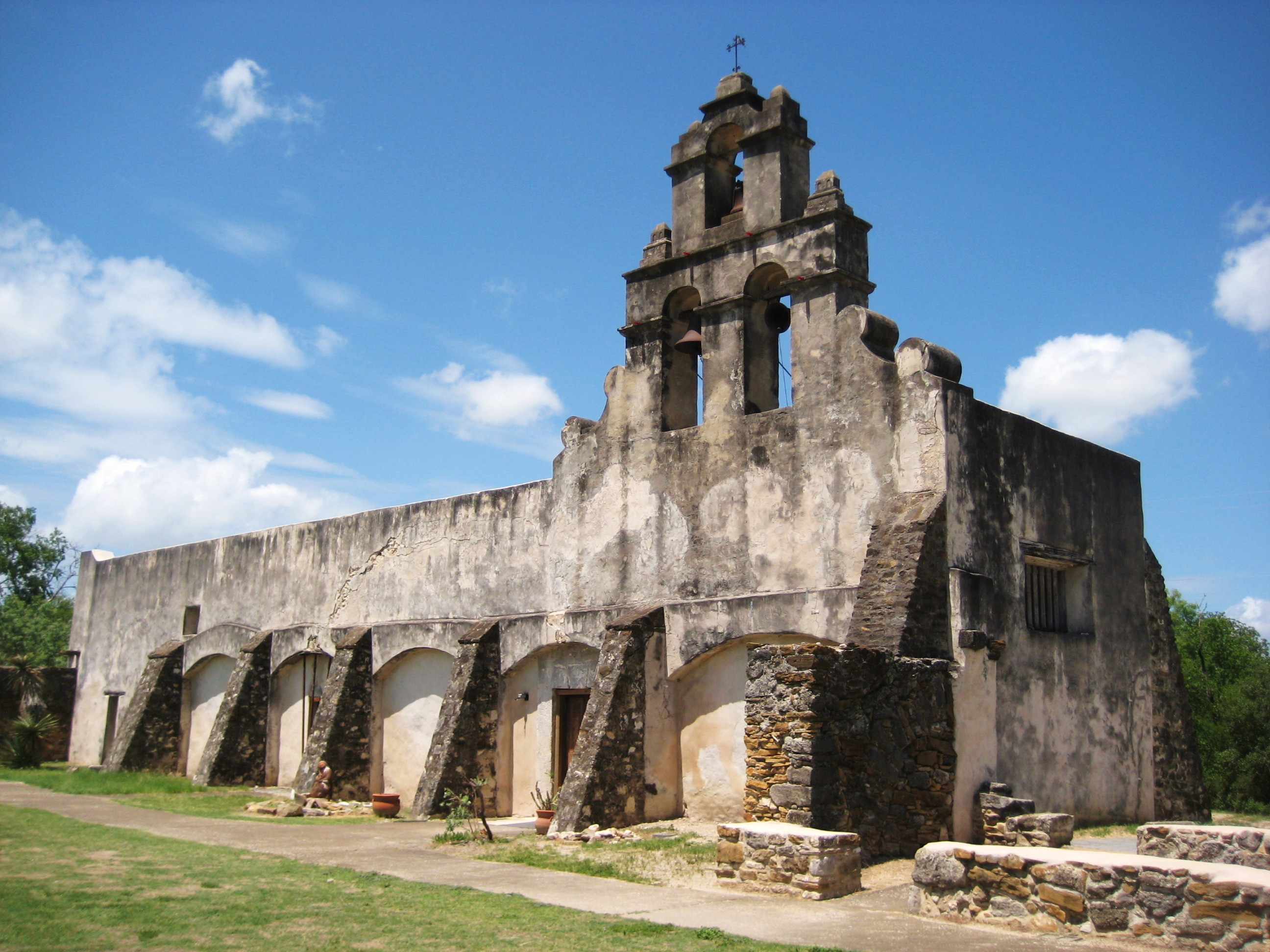 Mission San Juan Capistrano facade at San Antonio, TX